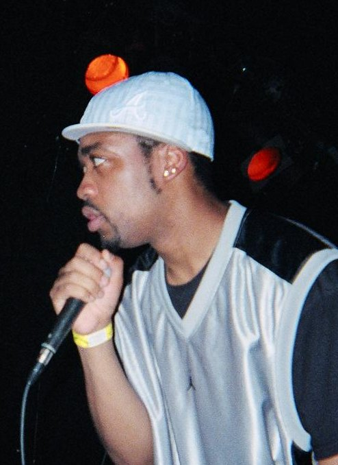 ==Wiley rapping live